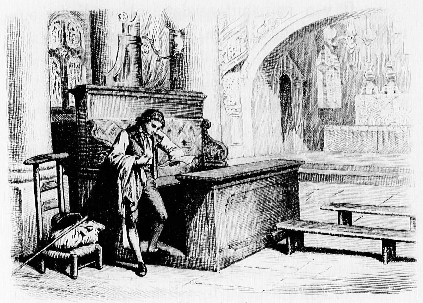 Illustration of The Red and the Black (1830) by Stendhal (1783-1842)